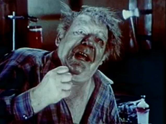 A screenshot from Dracula vs. Frankenstein